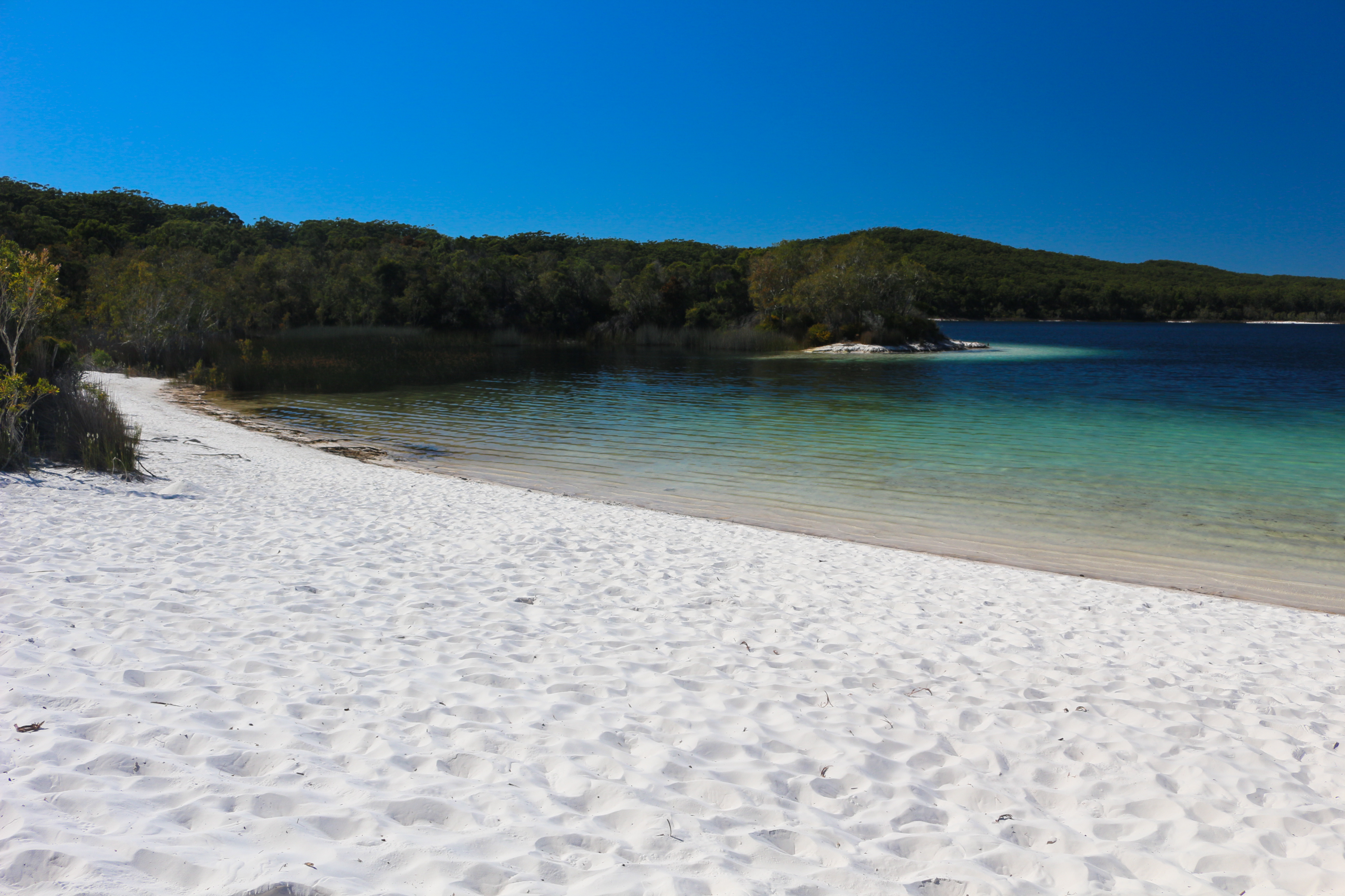 Australia, Queensland, Fraser Island, Lake McKenzie, beach Nordfriisk: Australie, Queensland, Île Fraser, lac McKenzie, plage